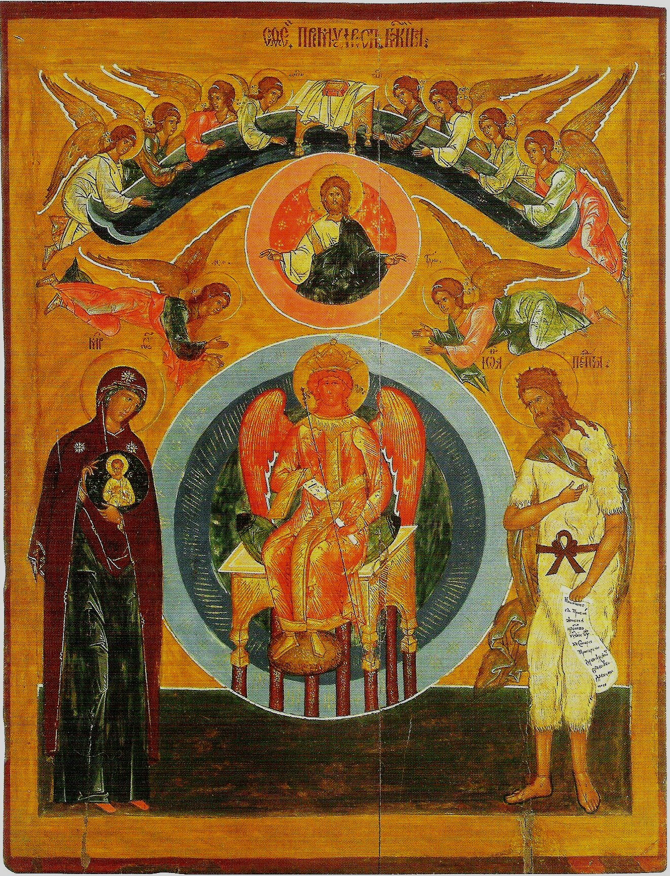 Icon of Holy Wisdom ("Novgorod type"), from the "warm" church (heated winter church)of St. George in Vologda (late 16 century)